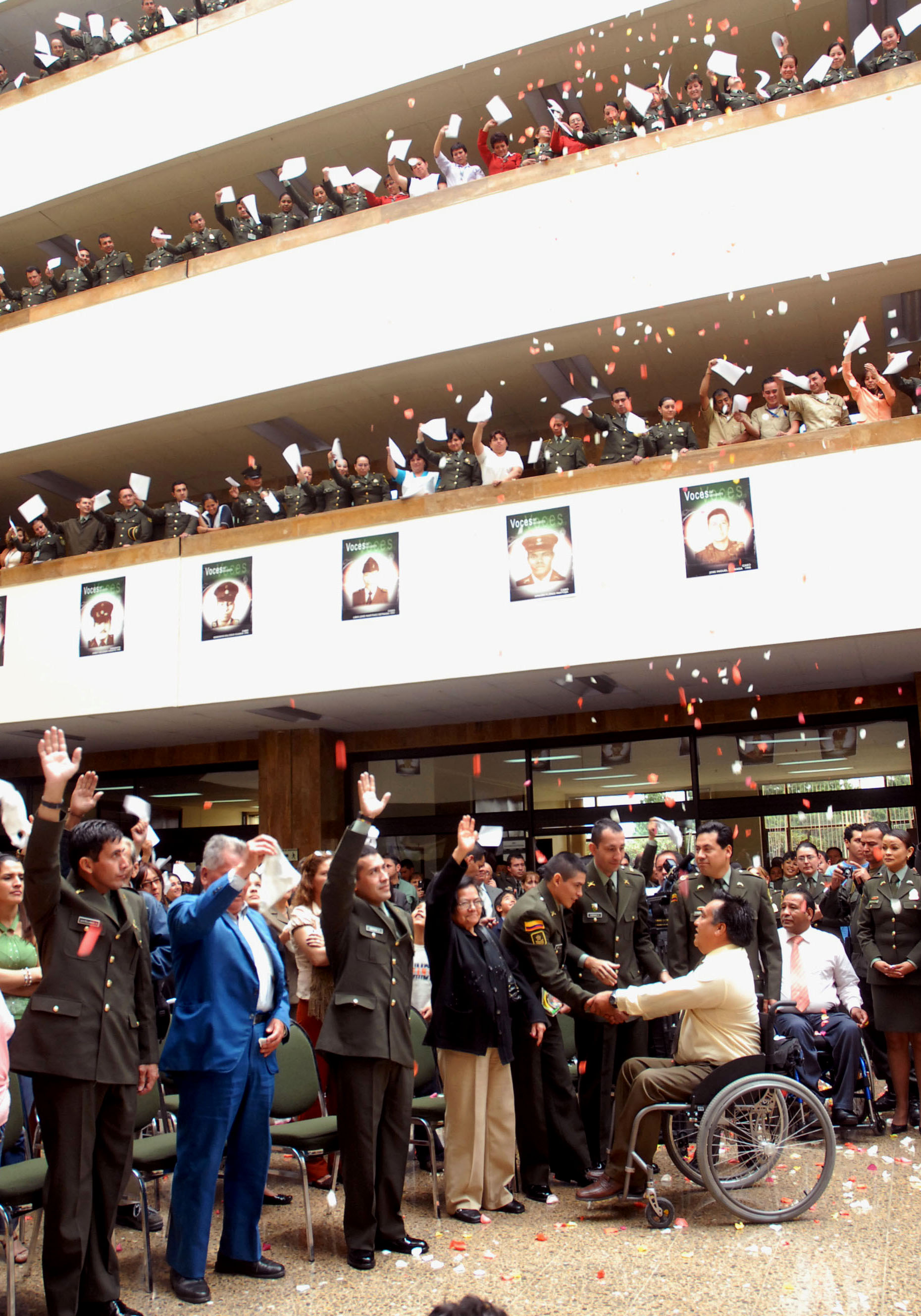 Policeman from Colombia